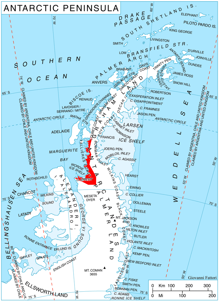 Location of Fallières Coast, Antarctica.